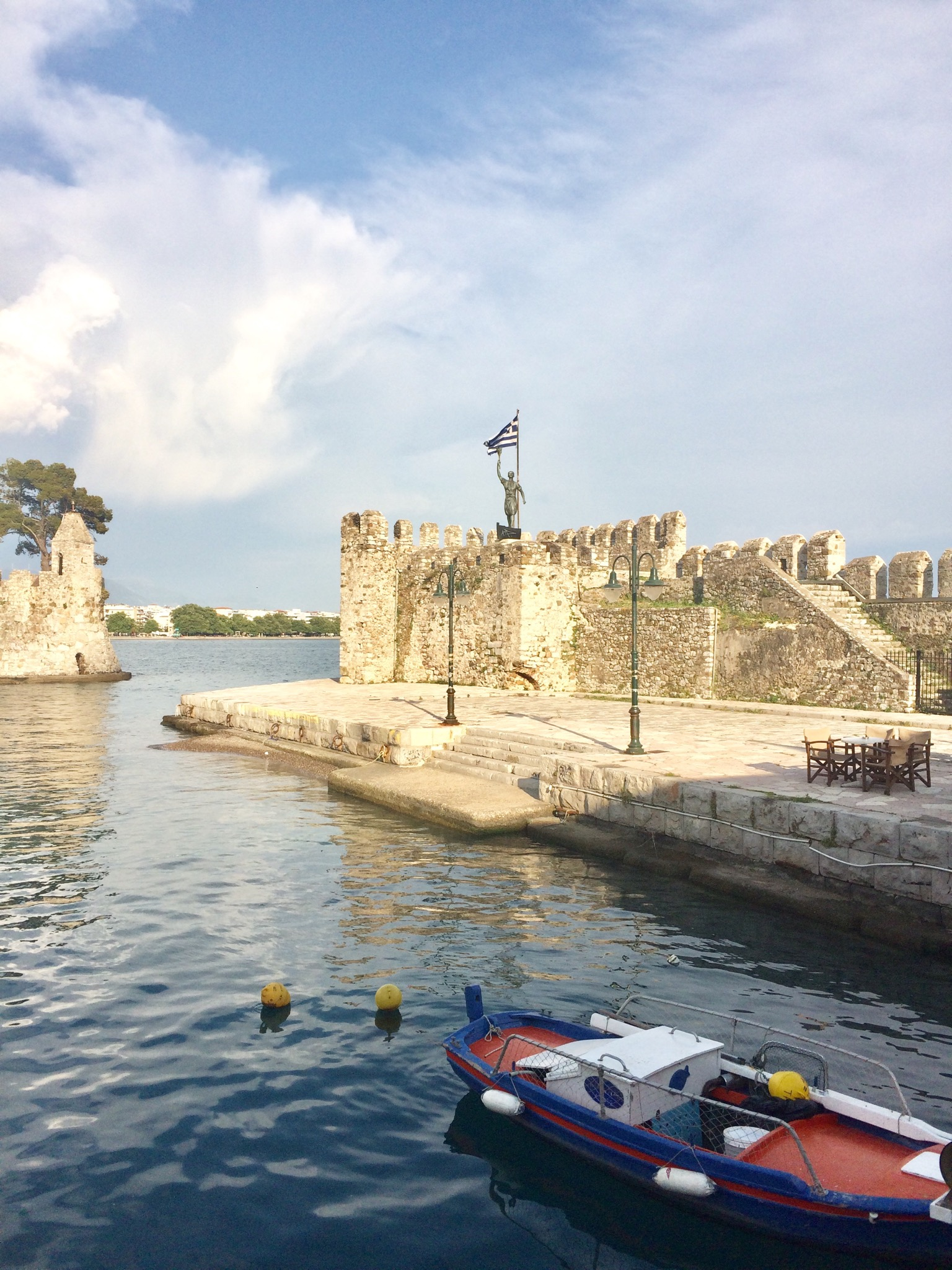 This is a photography of Natura 2000 protected area with ID GR2450004